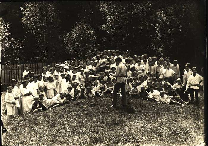 The Jewish children's commune in Malakhovka, Children and teaching staff. In the first row, 3rd from the left, the writer Dobrusin 1920-1922